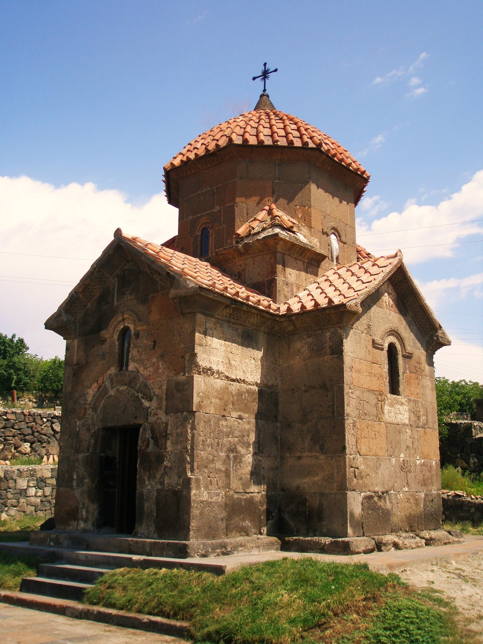 Karmravor, also known as Surb Astvatsatsin located in the village of Ashtarak.